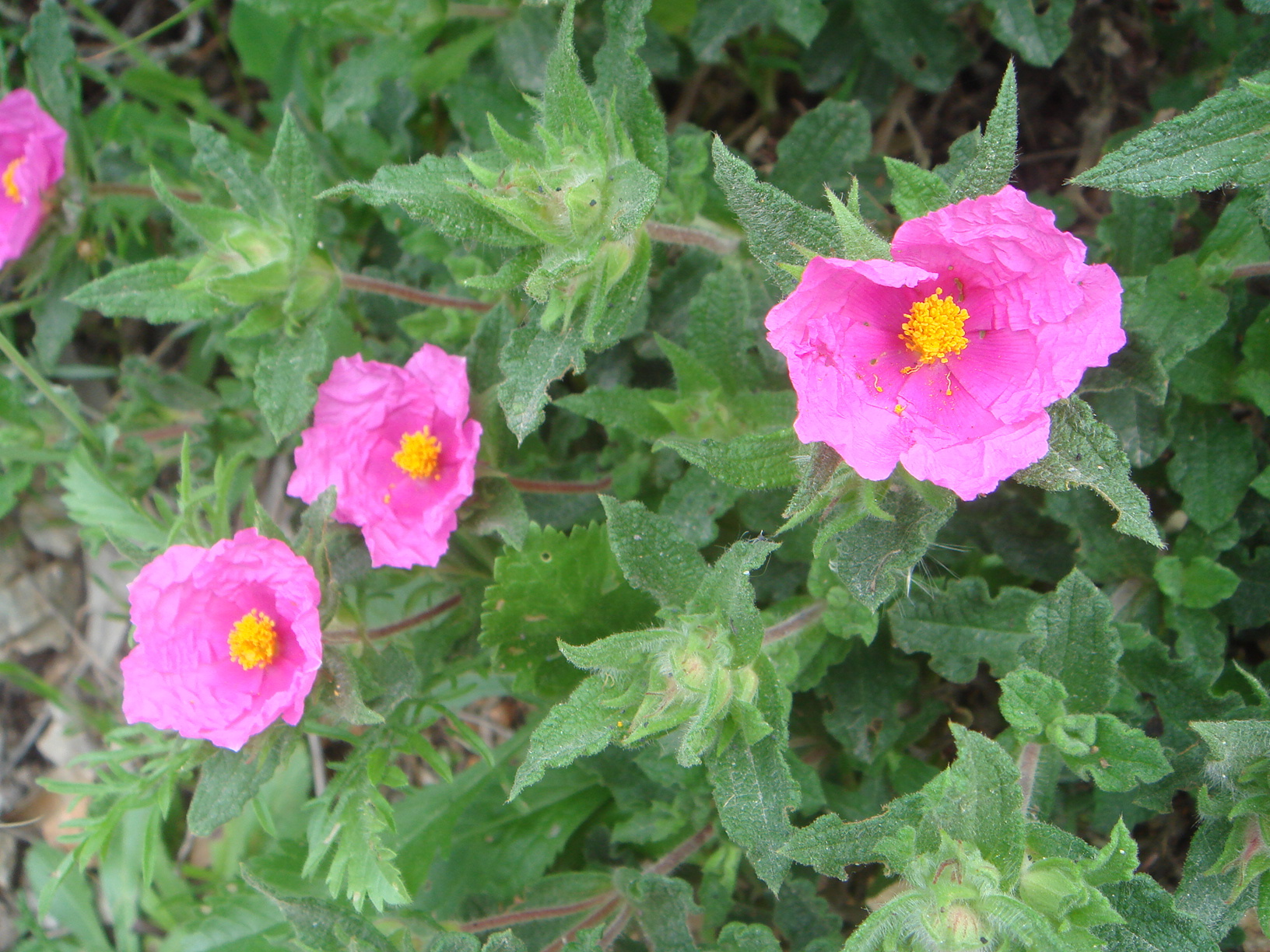 Cistus crispus, Spain, Ceuta